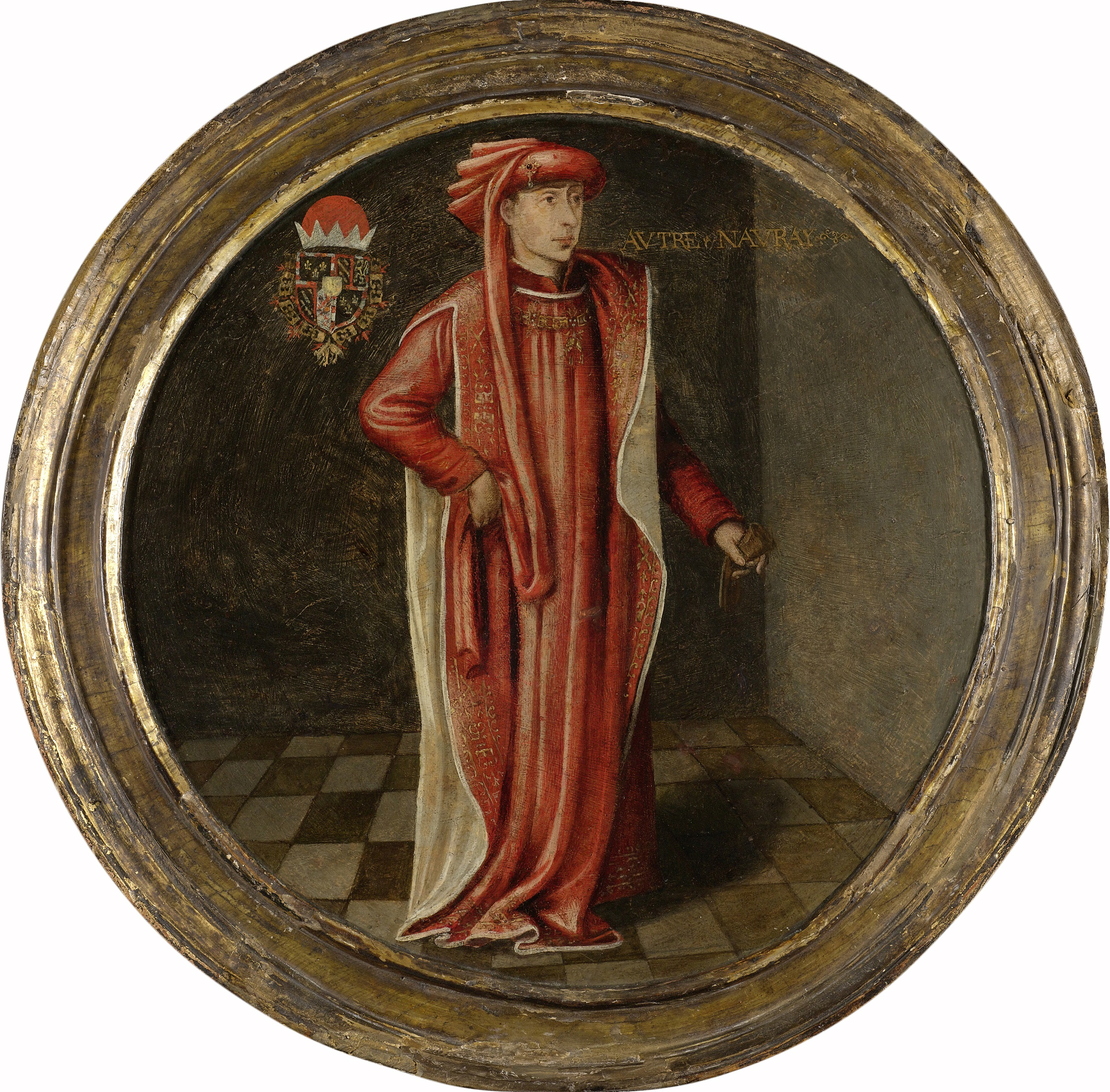 Portrait of Philip the Good, Duke of Burgundy. Standing, facing left, at full-length on a tiled floor. He is wearing the robe of the Order of the Golden Fleece. Around his neck he is wearing the collar of that order. Coat of arms top left. With integrated frame. Pendant of File:Portret van Karel de Stoute, hertog van Bourgondië Rijksmuseum SK-A-3836.jpeg.